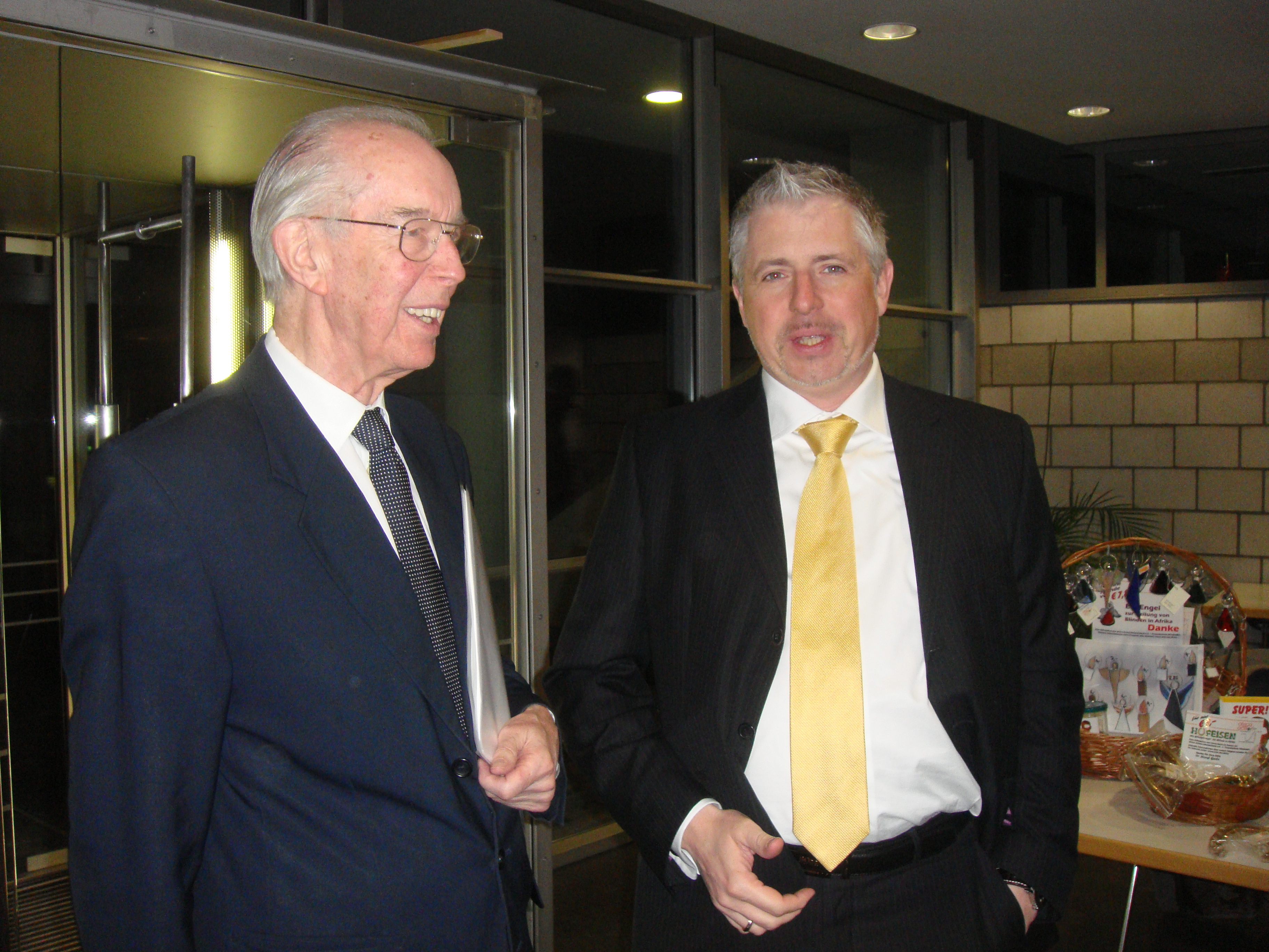 Werner Bardenhewer - Dirk Müller - 20 March 2012, "Hunger increased by bets on food", lecture by Dirk Müller